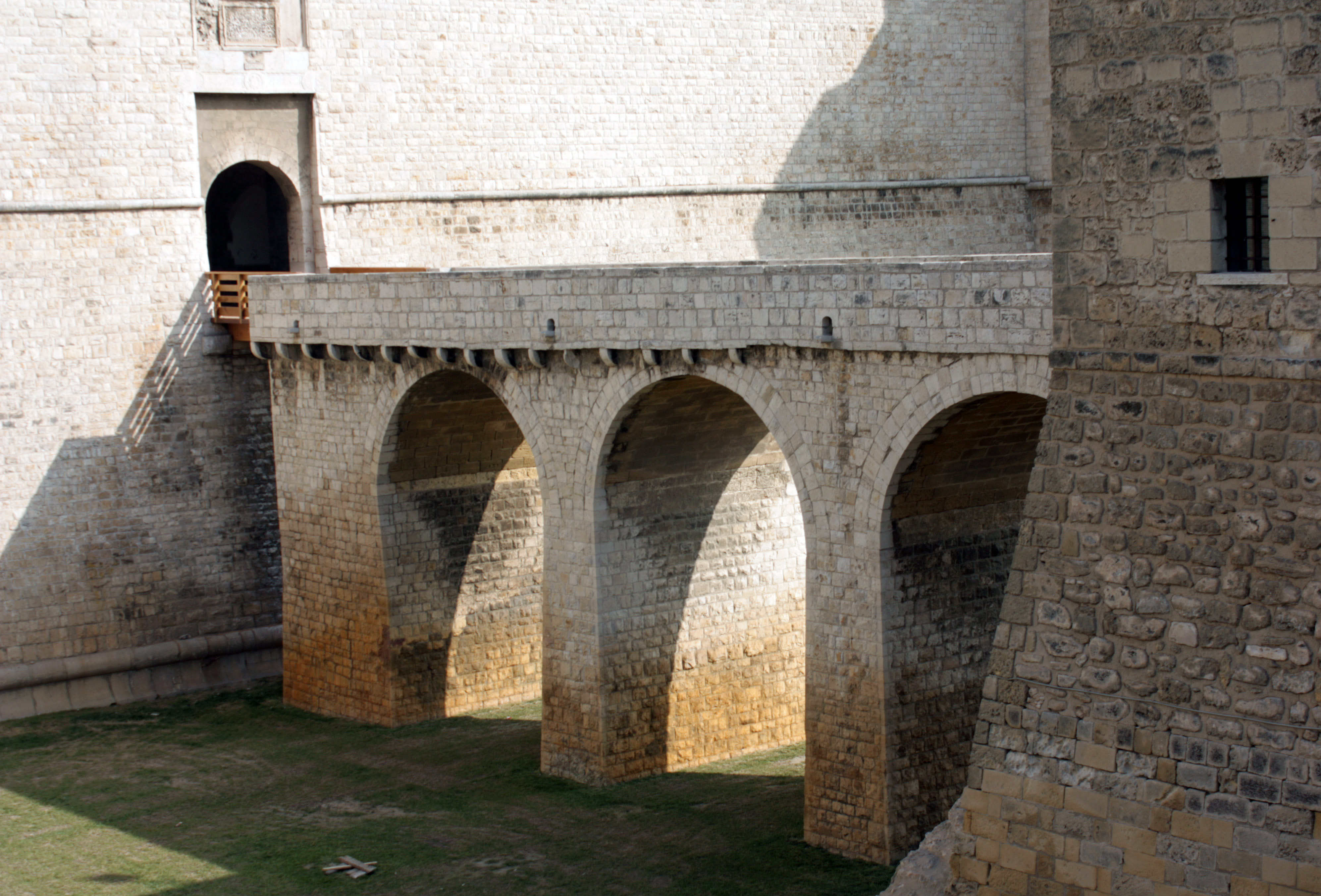 Panoramic view of the bridge of the Castle of Barletta from Sud-Wes